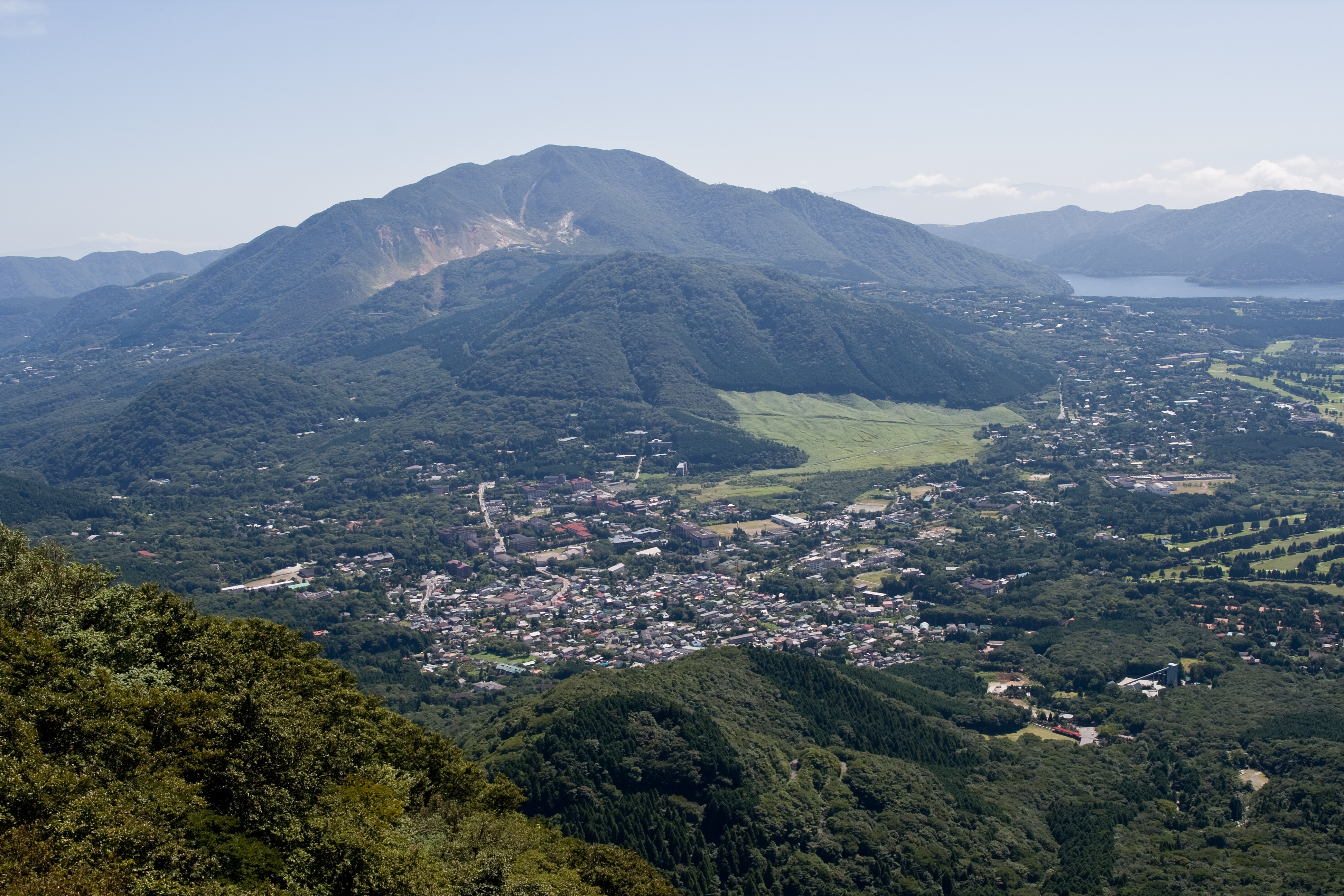 Mt.Kami as seen from Mt.Kintoki in Kanagawa Prefecture, Honshu, Japan.